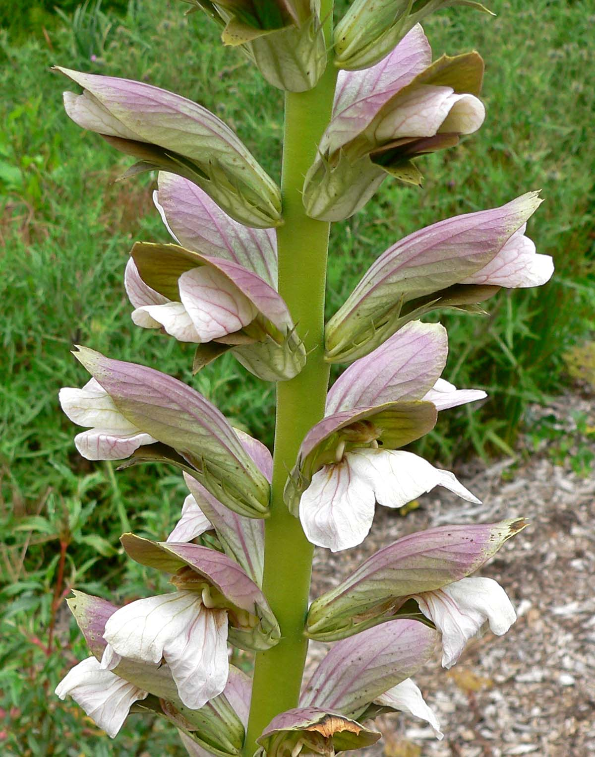 Photo of Acanthus spinosus at the San Francisco Botanical Garden